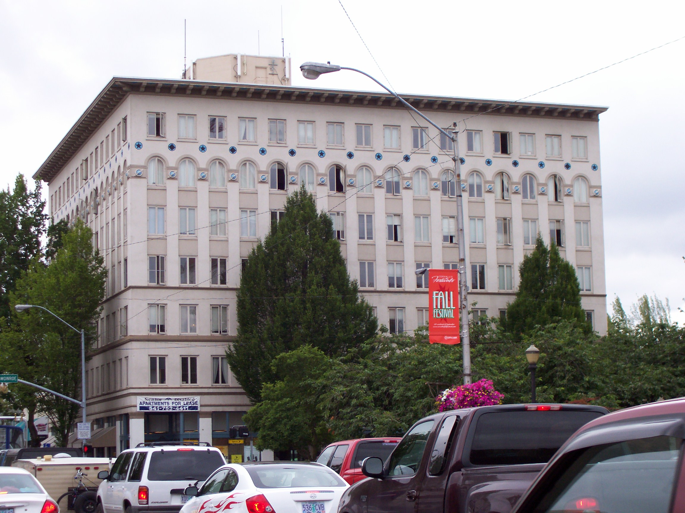 Benton Hotel Building in Corvallis. Listed on the National Register of Historic Places.